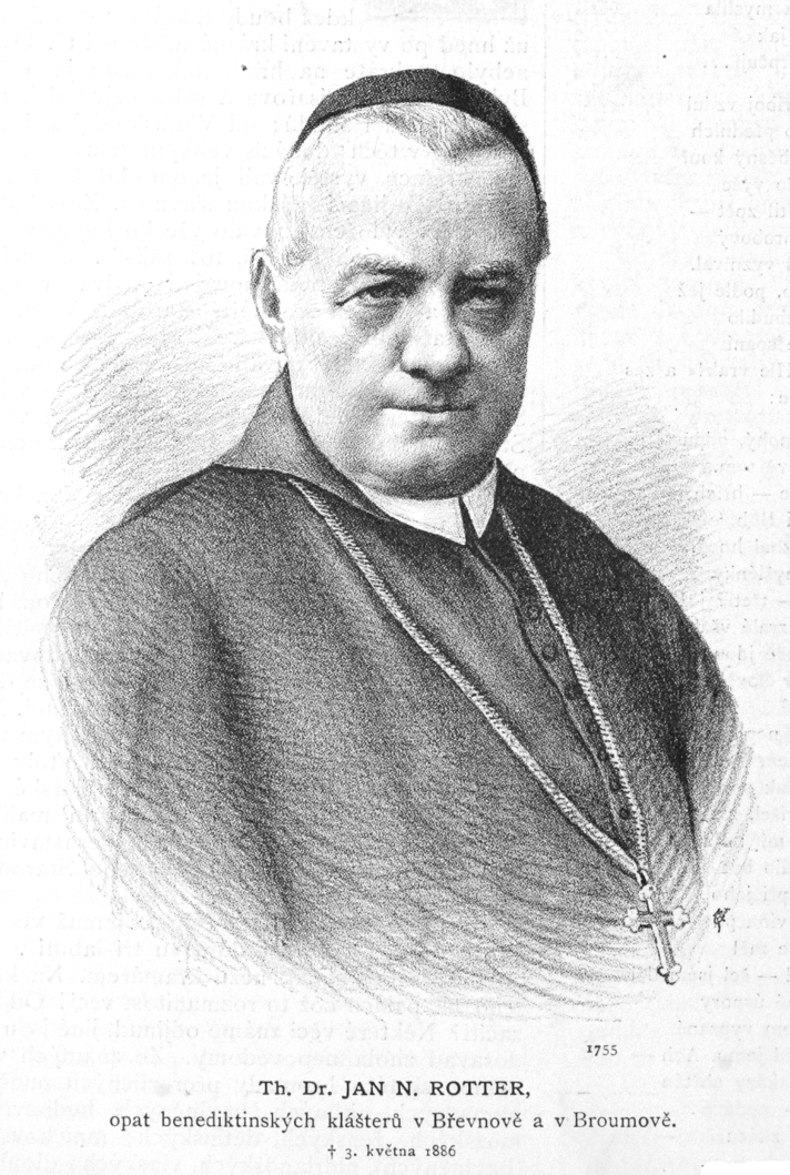 Portrait of Jan Nepomuk Rotter (1807-1886), a Benedictine abbot in Břevnov (present-day Prague, Czech Republic) and a college professor of theology.